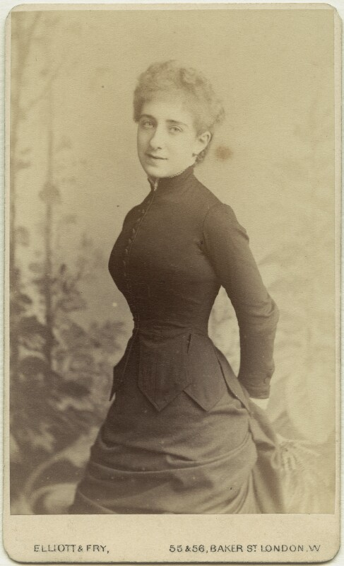 Ada Esther Leverson (née Beddington) by Elliott & Fry albumen carte-de-visite, late 1880s 3 5/8 in. x 2 3/8 in. (93 mm x 60 mm) image size Purchased, 1995 Photographs Collection NPG x76184 Place made: United Kingdom: England, London (photographers' studio, 55 & 56 Baker Street, Portman Square, London)